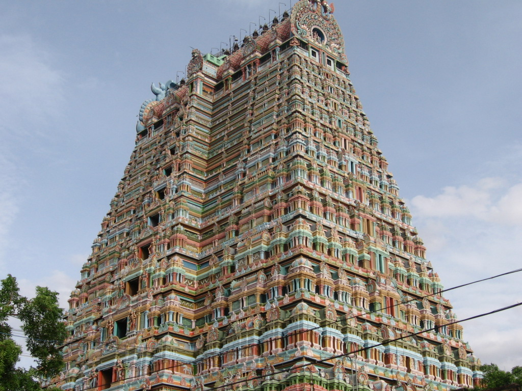 Srirangam Main entrance Another view